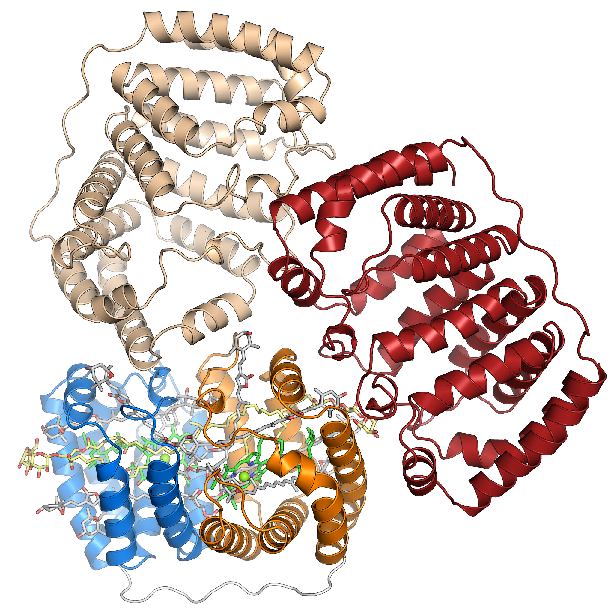 Crystal structure of the soluble peridinin-chlorophyll-protein complex from the photosynthetic dinoflagellate Amphidinium carterae, showing the noncrystallographic trimer consistent with biochemical observations about the natural oligomer state. This complex is found in many photosynthetic dinoflagellates and involves a boat or cradle-shaped protein with two pseudosymmetrical repeats of eight alpha helices (shown in the lower left monomer in blue and orange) wrapped around a pigment-filled central cavity. Each eight-helix segment binds one chlorophyll molecule (green, with central magnesium ion shown as a green sphere), one diacylglycerol molecule (yellow) and four peridinin molecules (gray). For the other two monomers, only the protein is shown, in tan and red. Compare File:1ppr peridinin chlorophyll protein.png, which shows only the lower left monomer in a similar orientation. Rendered using PyMol from PDB ID 1PPR. Hofmann E, Wrench PM, Sharples FP, Hiller RG, Welte W, Diederichs K. Structural basis of light harvesting by carotenoids: peridinin-chlorophyll-protein from Amphidinium carterae. Science. 1996;272(5269):1788-91. DOI 10.1126/science.272.5269.1788.